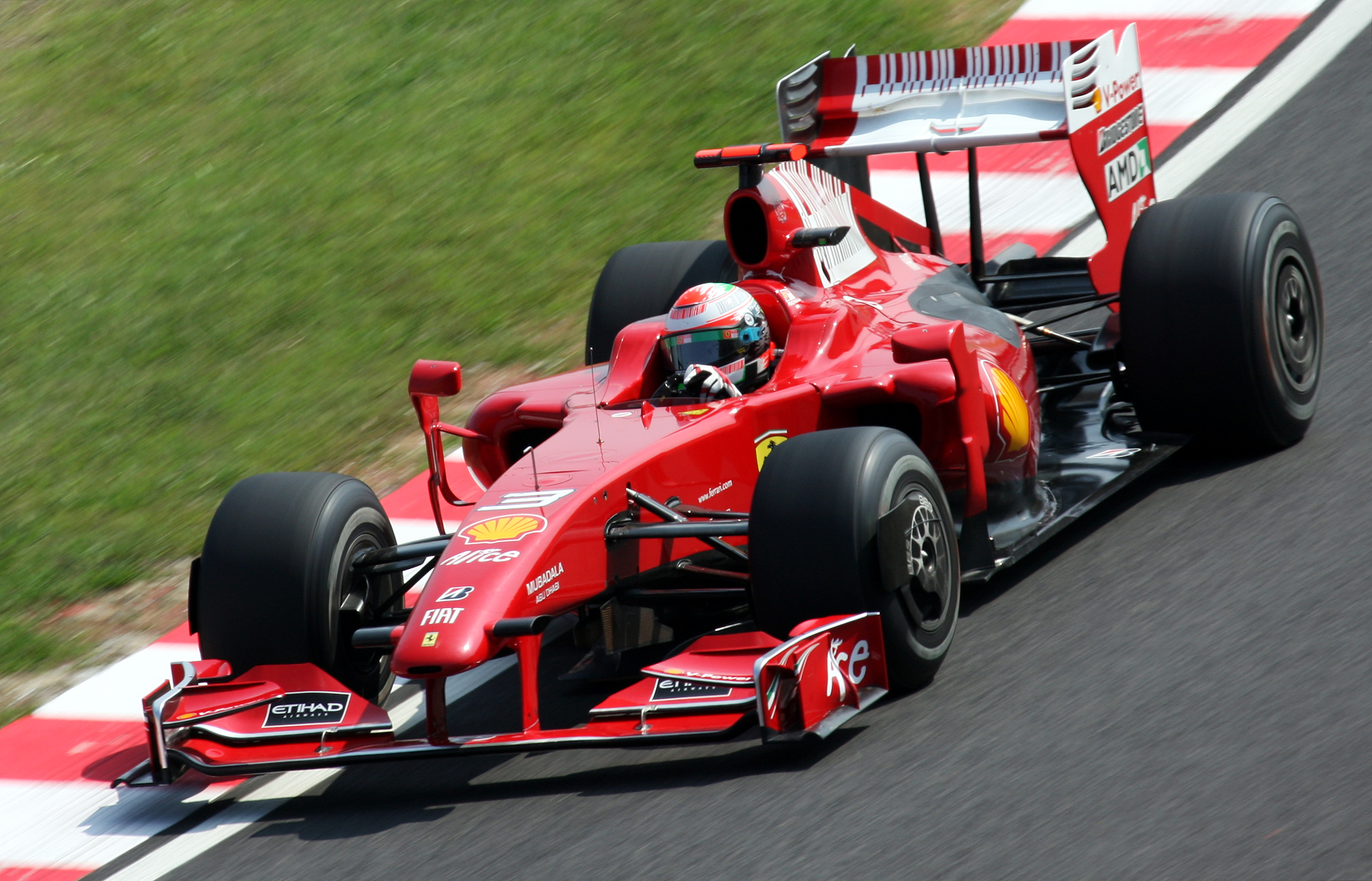 Formula One 2009 Rd.15 Japanese GP: Giancarlo Fisichella (Ferrari) running in Saturday 3rd Free Practice session at the 2009 Japanese Grand Prix.